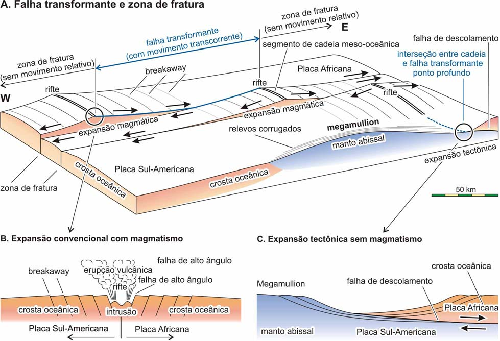 Transform fault and ridge.